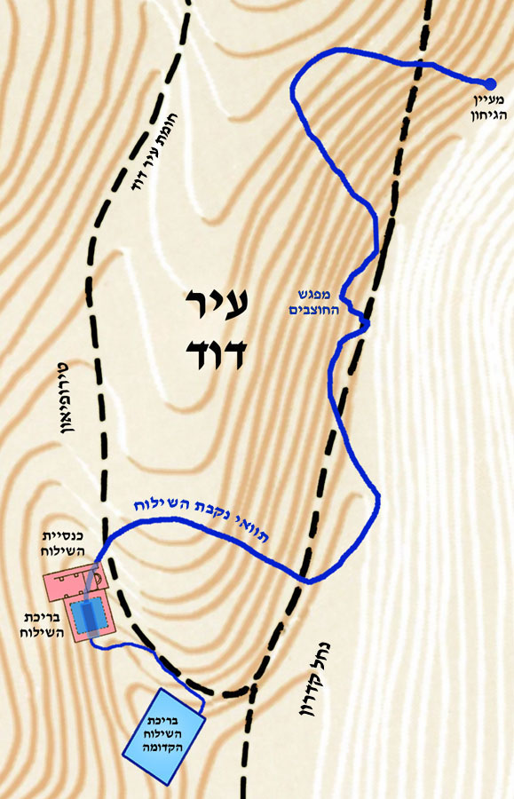 Hezekiah's Tunnel map